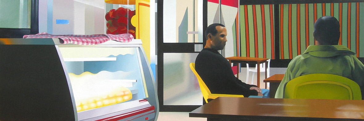 "The Conversation" 195x65cm; Acryl op doek